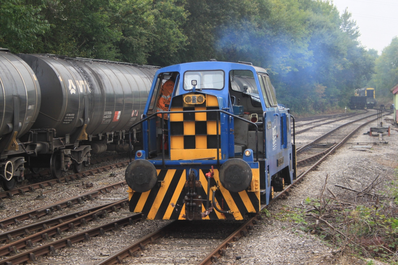 Ribble Rail's Sentinel shunting locomotive Enterprise runs past some of the bitument tank wagons that carry trafic for Total's Preston depot. This is the only regular freight traffic handled by Ribble Rail although the line is also used for heritage passenger services. The grey and yellow locomotive in the distance is a former Dutch shunter; number 663 is a back-up engine for the bitument trains.